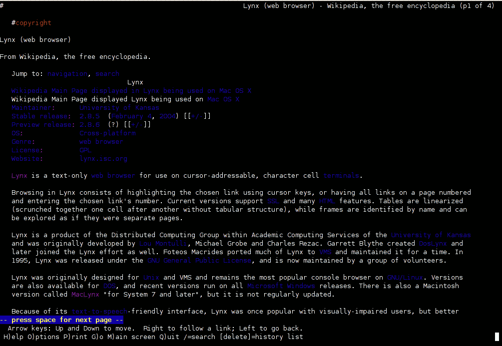 Lynx article viewed using Lynx in gnome-terminal.